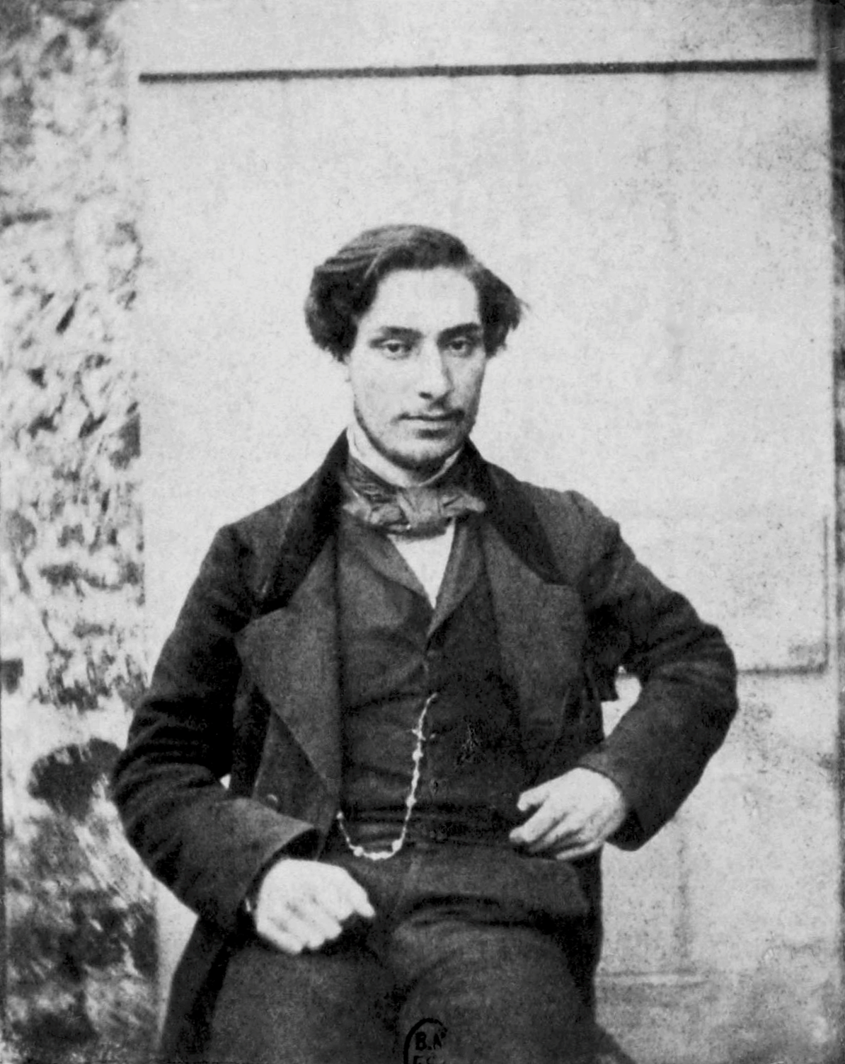 Ernest Lefèvre (1833–1889), French journalist and republican politician.